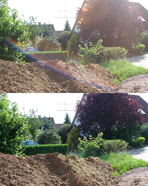 Comparison of a scene taken without and with Lens hood.